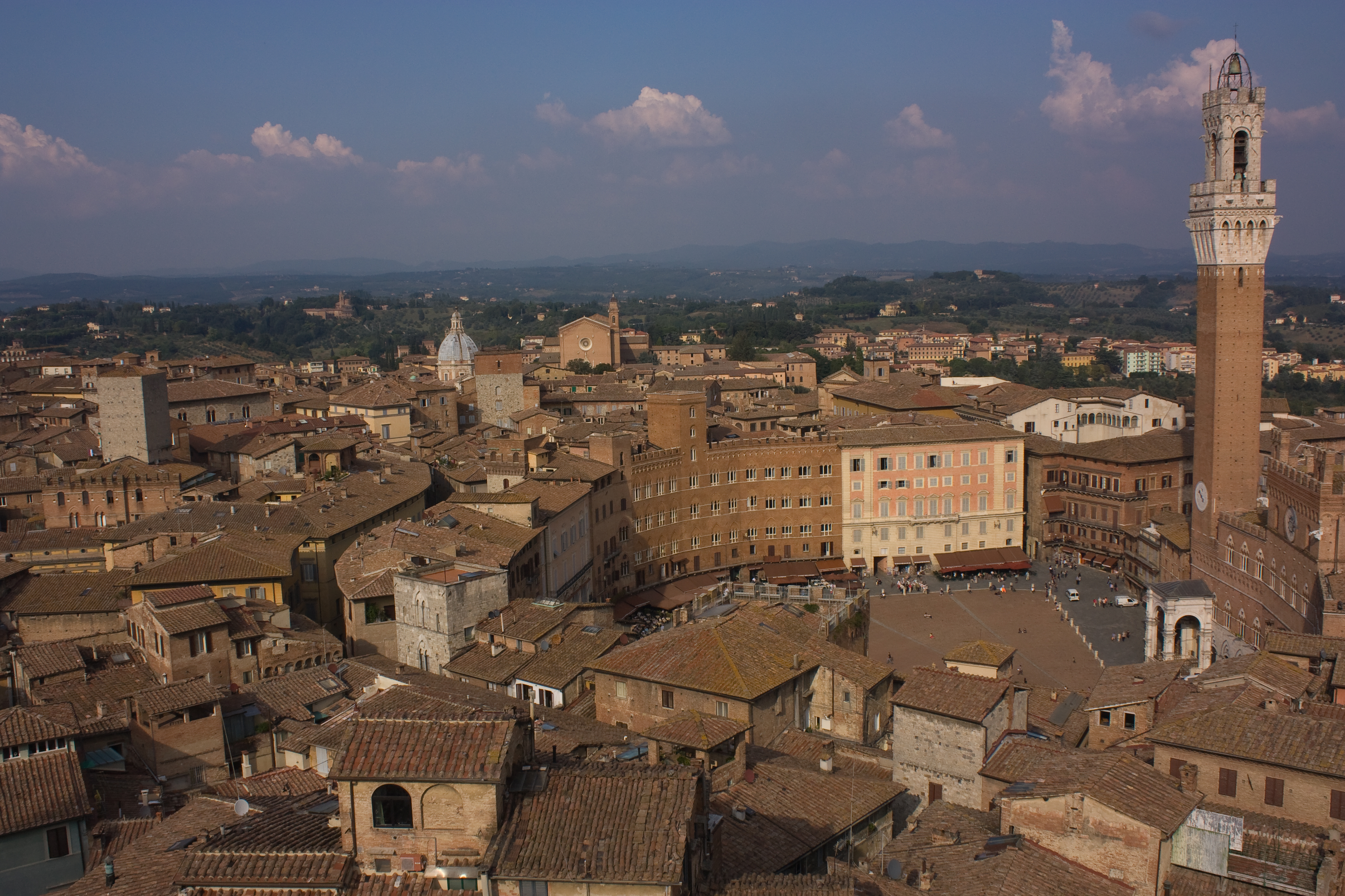 Main place and Mangia Tower (Campo and Torre del Mangia) seen from opera building, close to the dome of Siena. Siena, Tuscany, Italy.